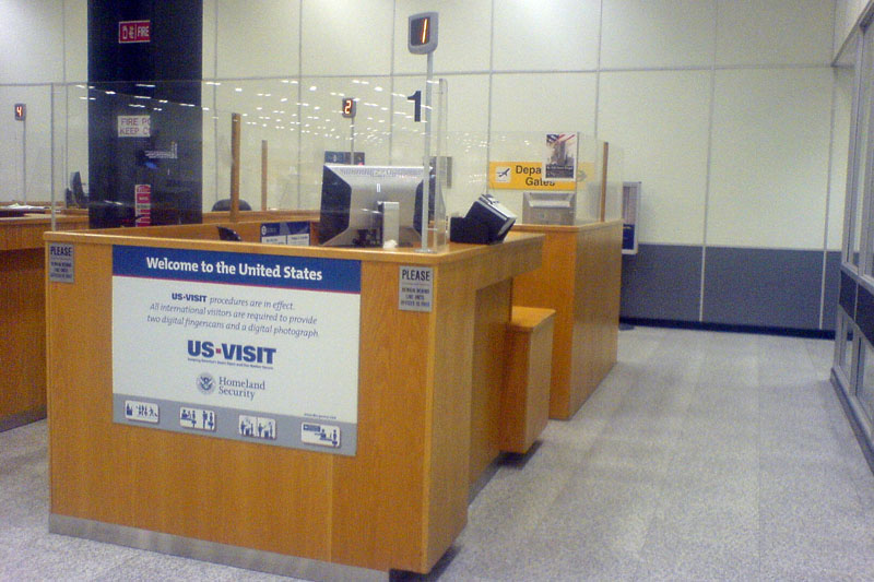 US Immigration and Customs at Shannon Airport, Ireland